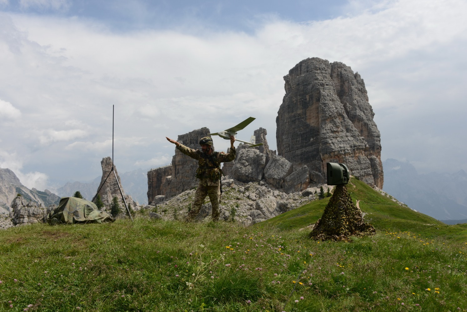 Italian Army 41st Regiment "Cordenons" operator launching a RQ-11 Raven drone in the Dolomites